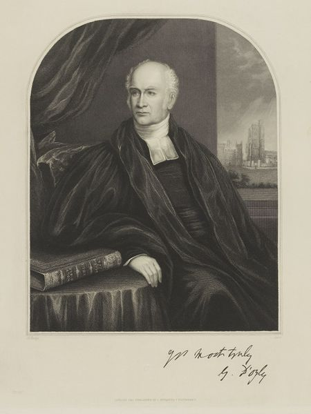 Portrait of George D'Oyly (1778–1846), English cleric.